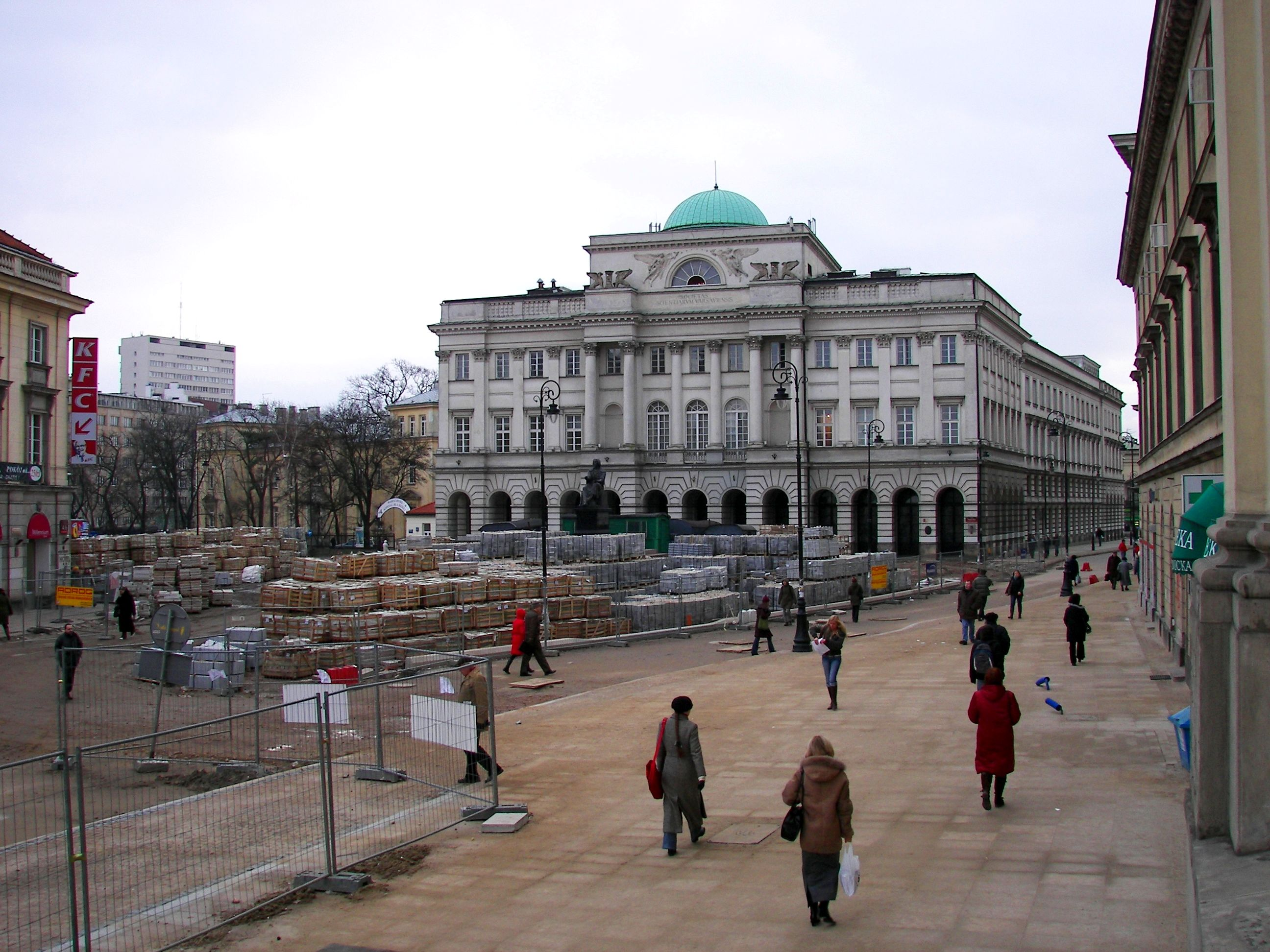 the Rebuilding of Krakowskie Przedmieście Street in Warsaw, Poland (2006-2007)